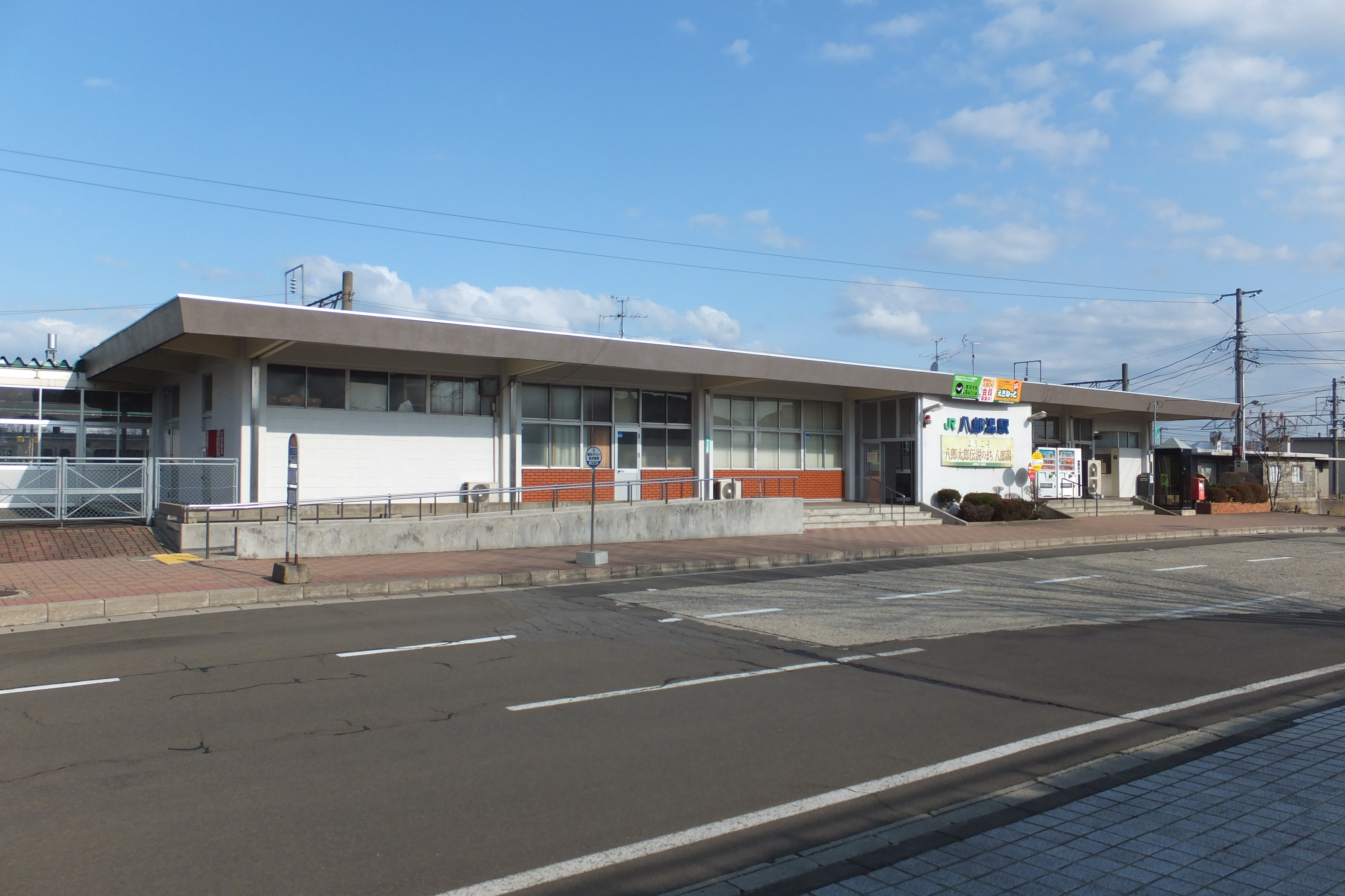 Hachirogata Station on the Ou Main Line, in Hachirogata Town, Akita Prefecture, Japan